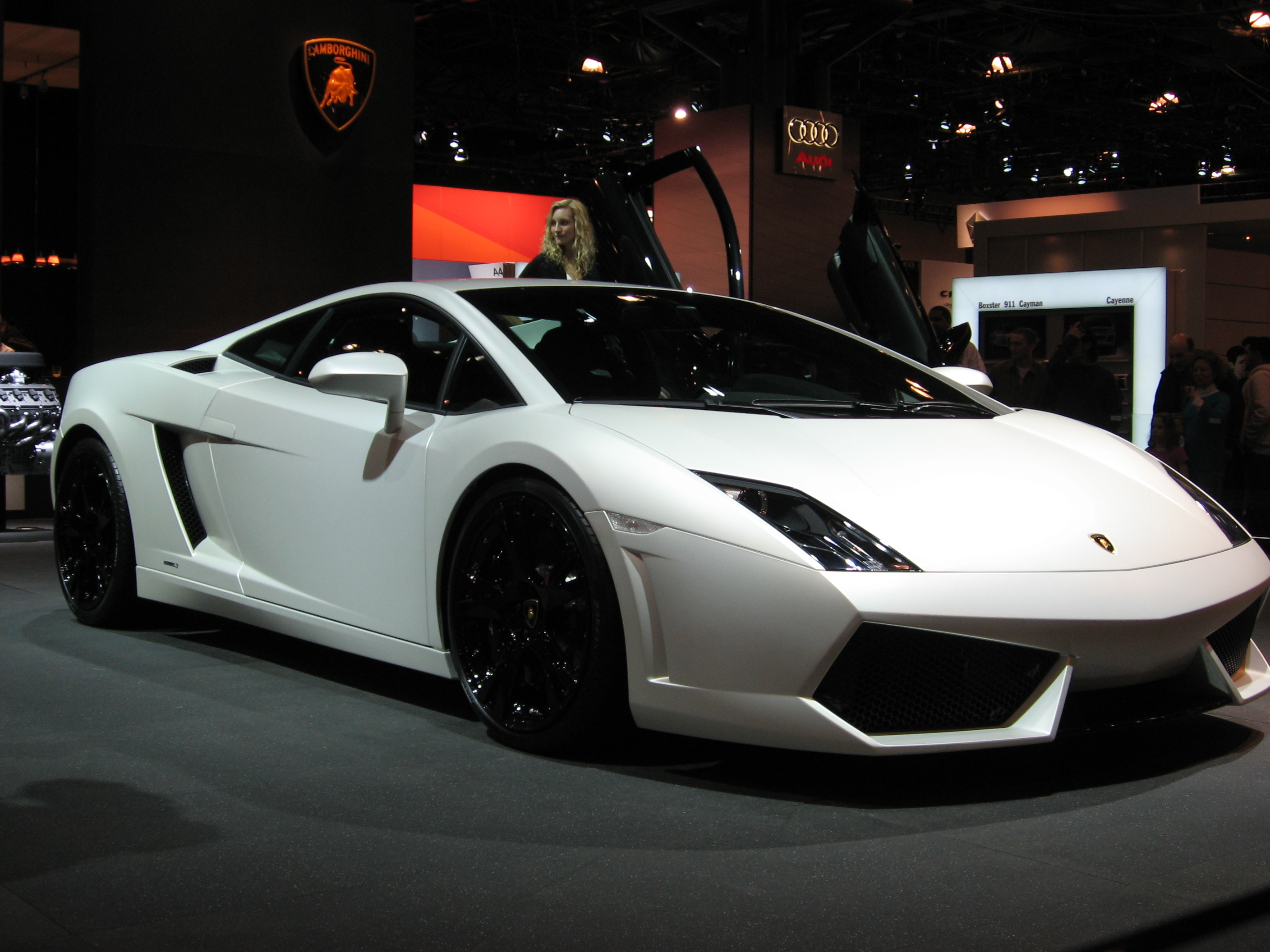 A white Lamborghini Gallardo LP560-4 at the New York AutoShow 2008